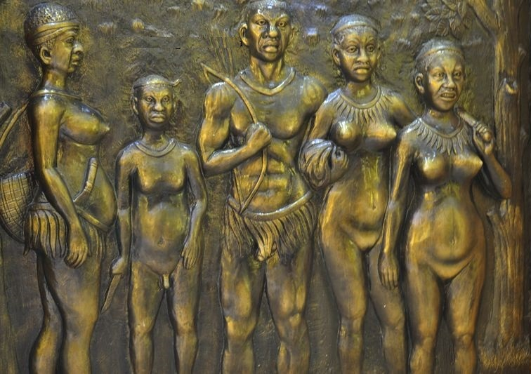 Tribes of Andaman